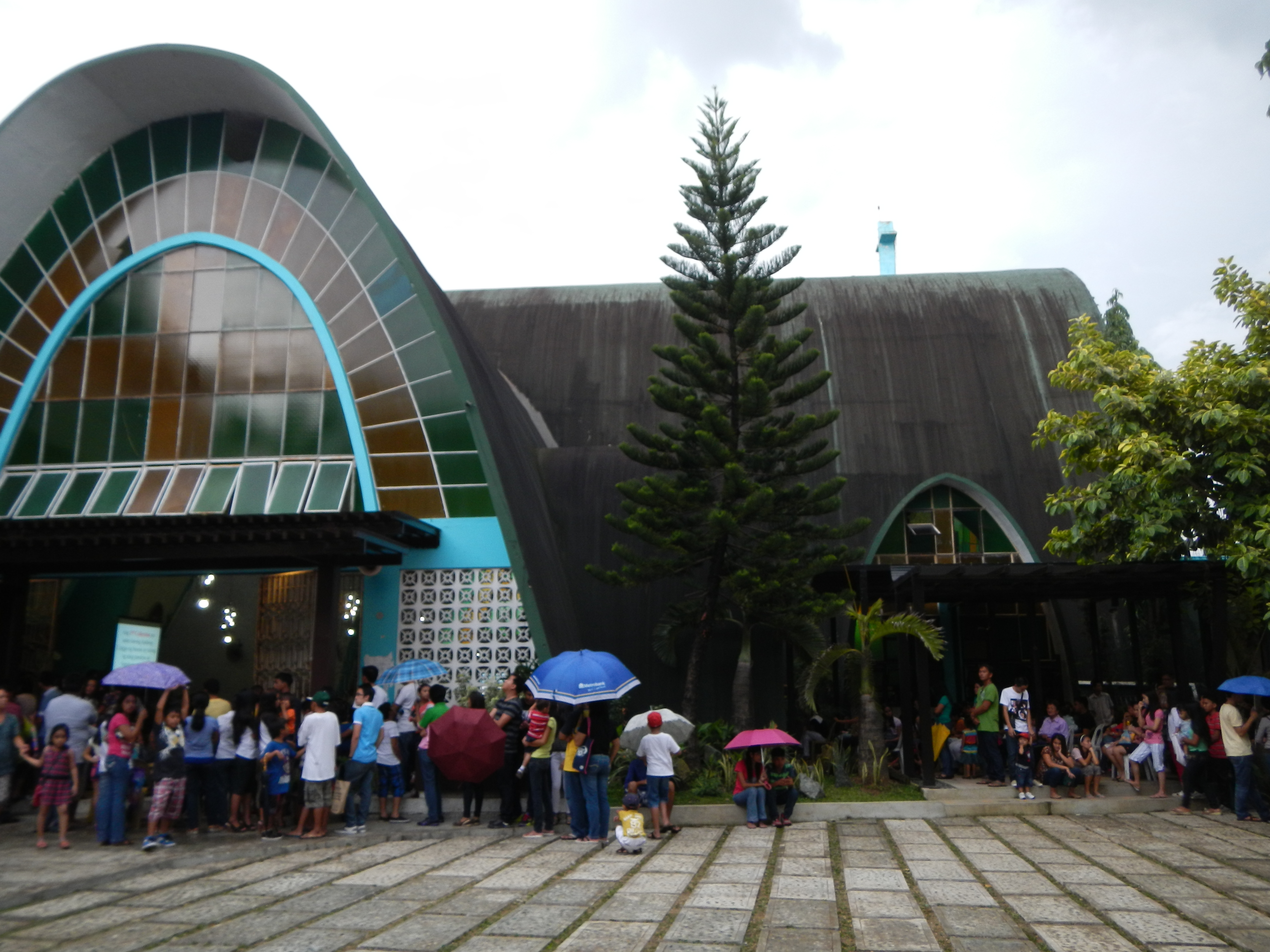 SaintJude Thaddeus Parish Church of Trece Martires (Trece Martires[1]) belongs to the Roman Catholic Diocese of Imus[2] District 3 - Vicariate of St. Francis of Assisi Vicar Forane: Rev Fr. Ariel M. Lisama Vicarial Representative: Rev Fr. Miguel R. Concepcion III.[3] Coordinates: 14°16'54"N 120°52'11"E [4] [5] [6] [7] [8] [9] Trece Martires[10] Website [11] Coordinates: 14°16'26"N 120°52'25"E